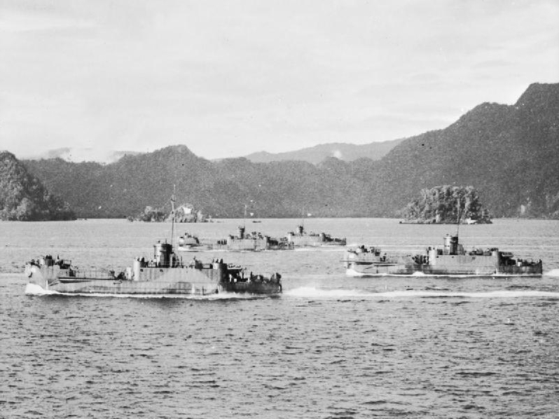 The Campaign in the Dutch East Indies, April - September 1944: American landing craft cross Humboldt Bay during the assault on Hollandia.